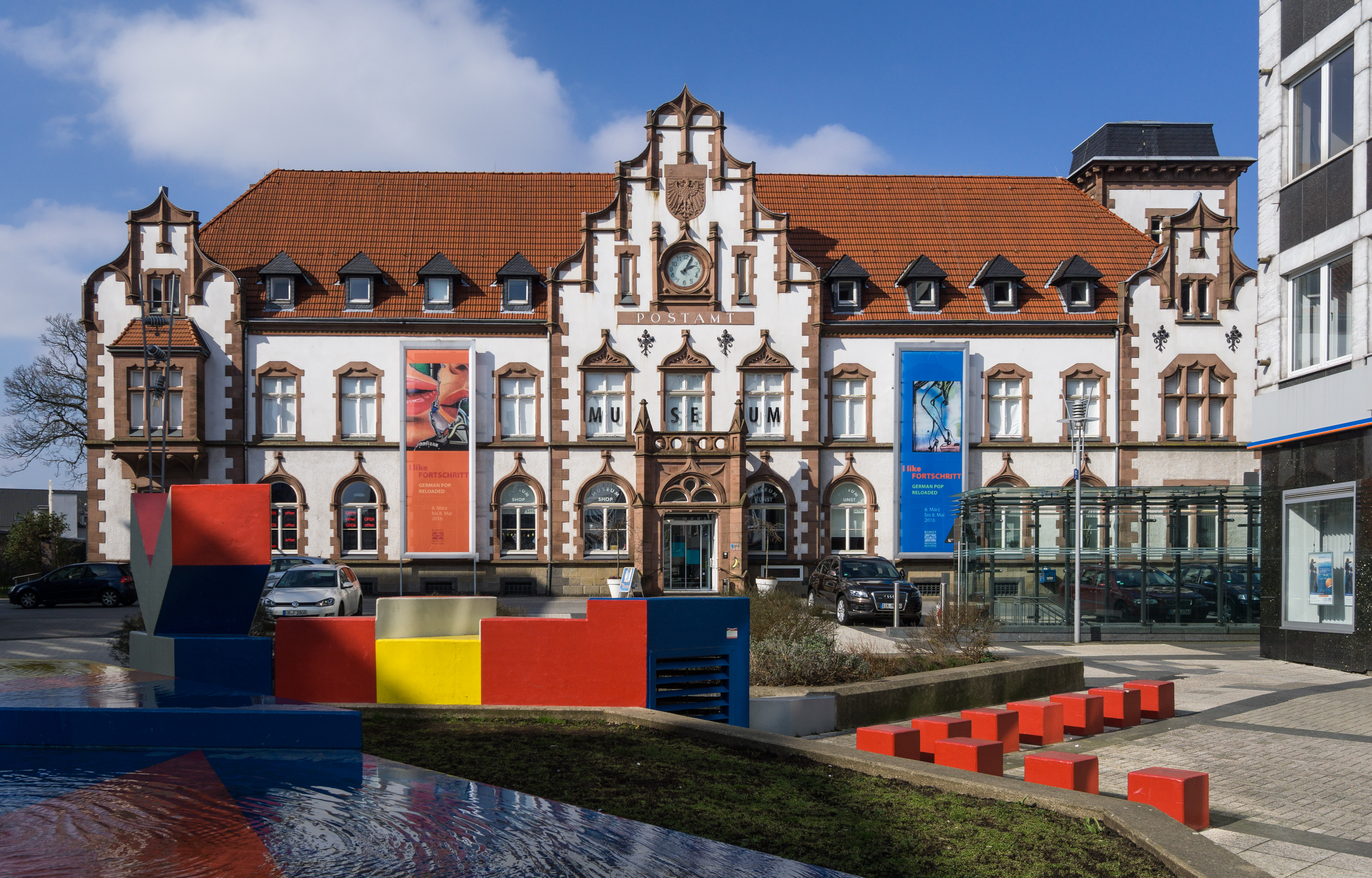 Old Post Office (Alte Post) with Hajek fountain in the foreground in Mülheim